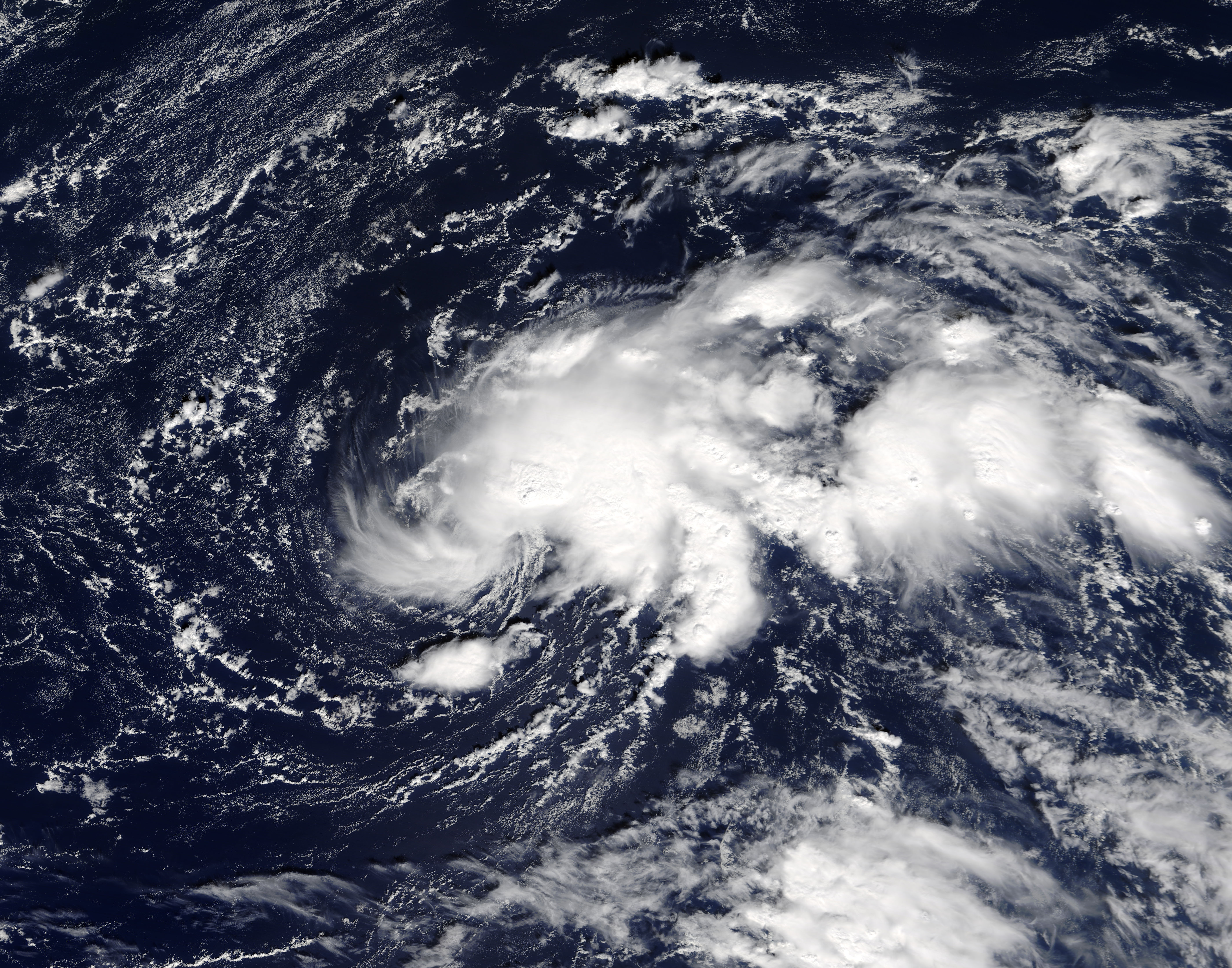 Tropical Storm Ophelia (17L) in the Atlantic Ocean